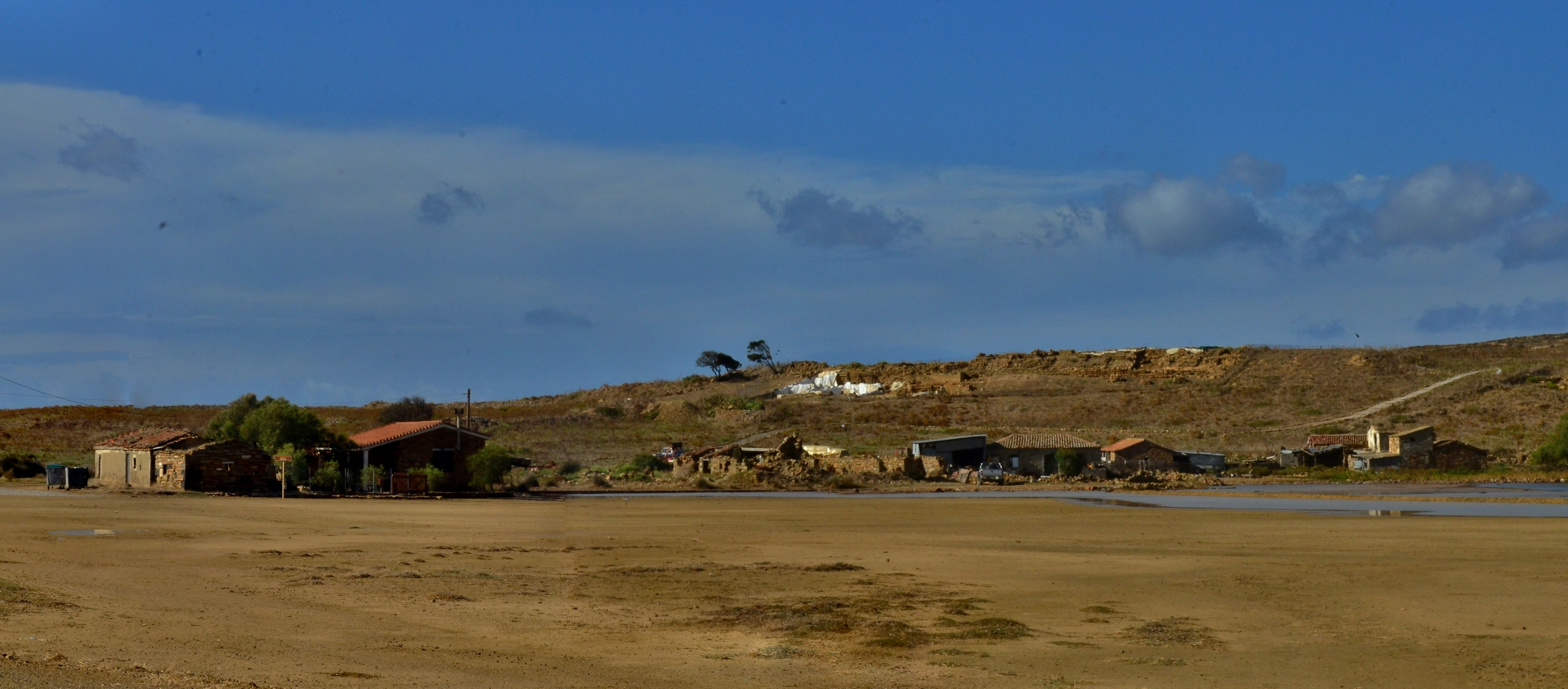 Hephaistia Lemnos, hill where excavation continues